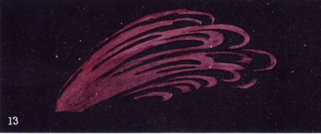 A thought form from Thought-Forms, by Annie Besant & C.W. Leadbeater.